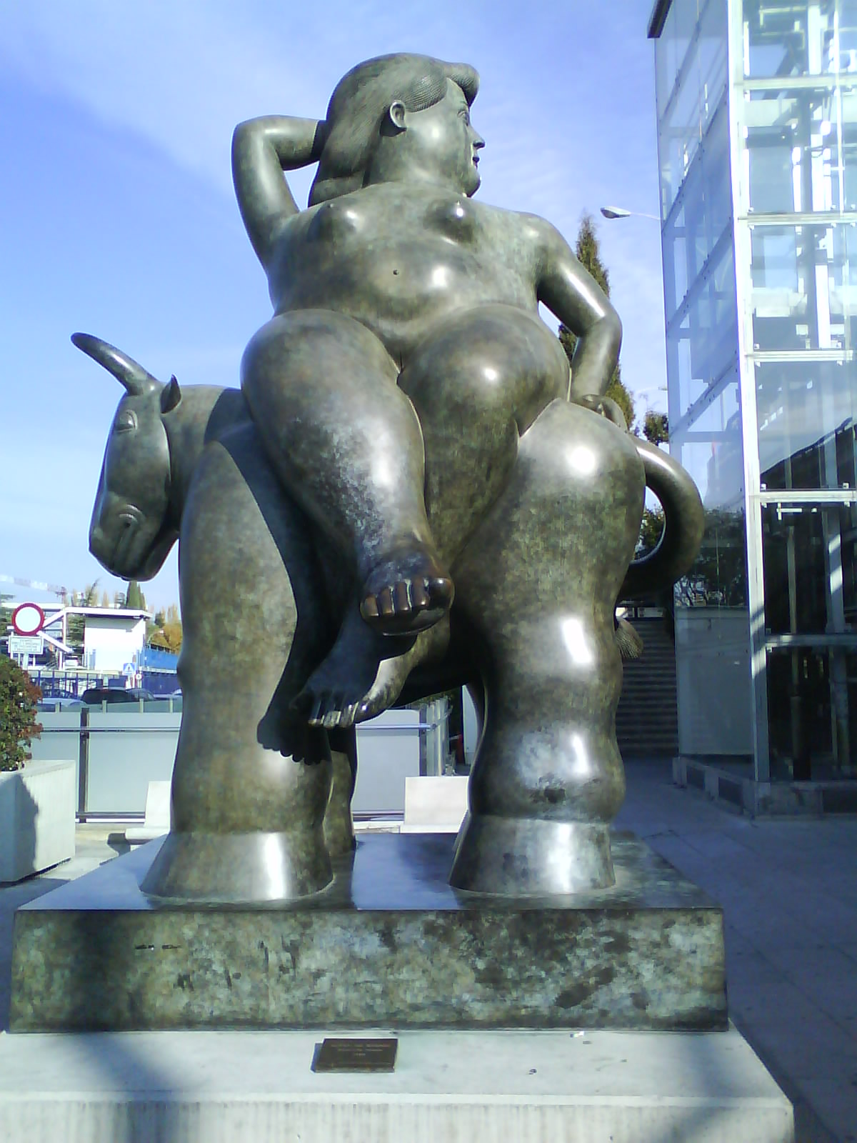 The rape of Europa , bronze sculpture of Fernando Botero, in the airport of Barajas, Madrid, Spain